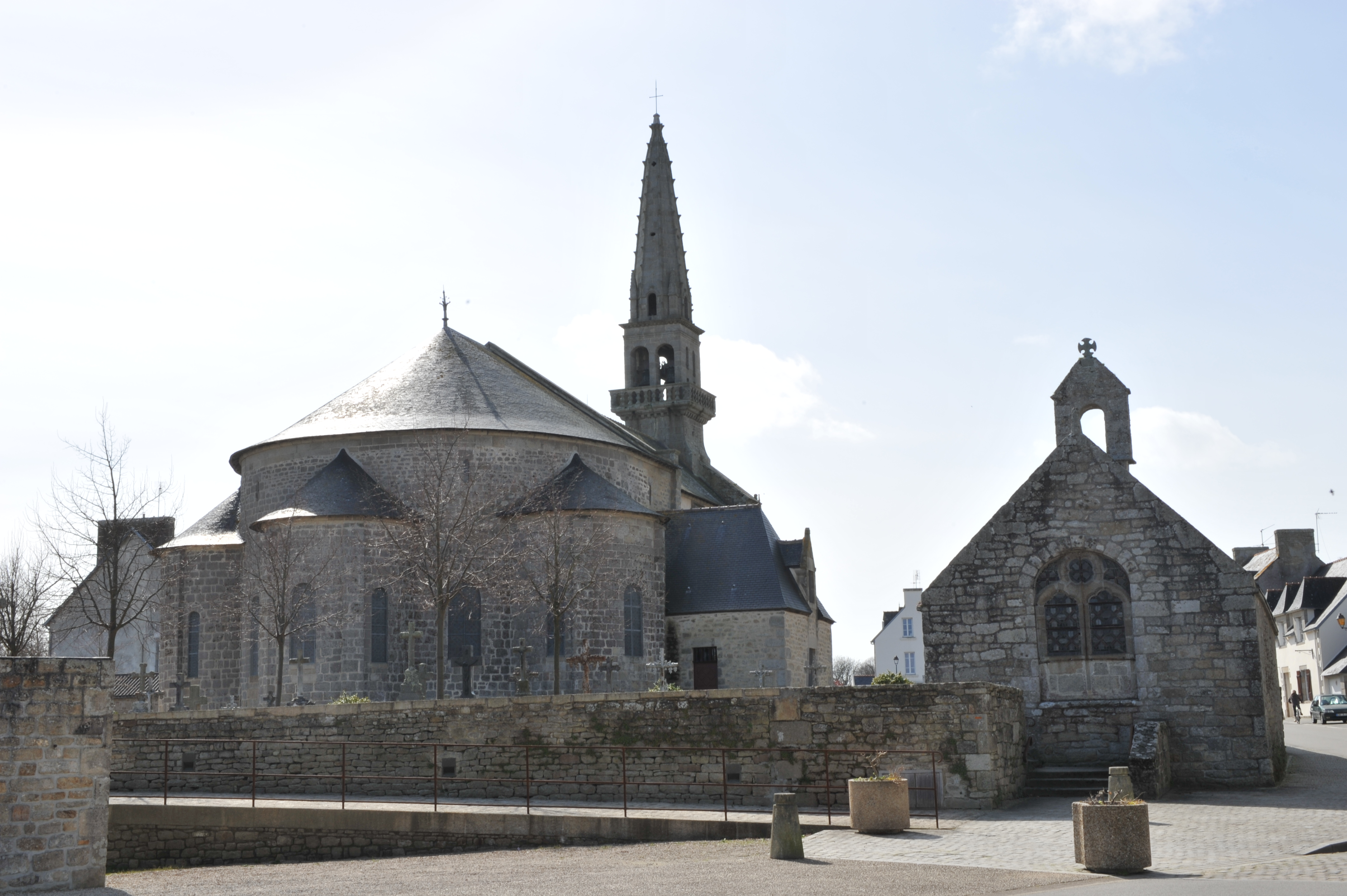 Church Saint-Tudy: the bedside. Chapelle de Porz-Bihan on the right. Loctudy - Finistère - France